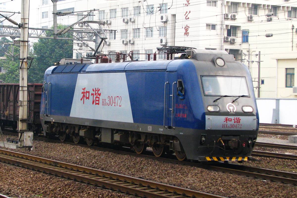 A China Railways HXD3 electric locomotives in Nanjing.